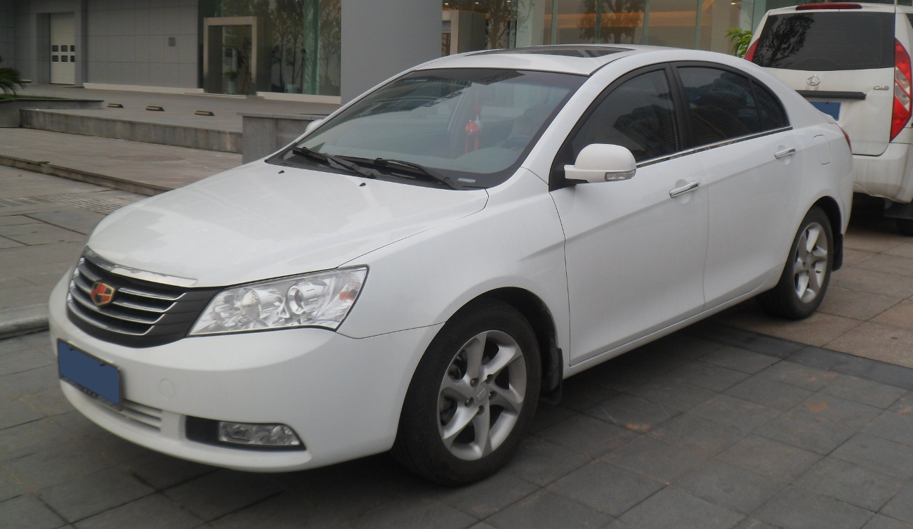 Emgrand EC7 photographed in Chongqing, China.